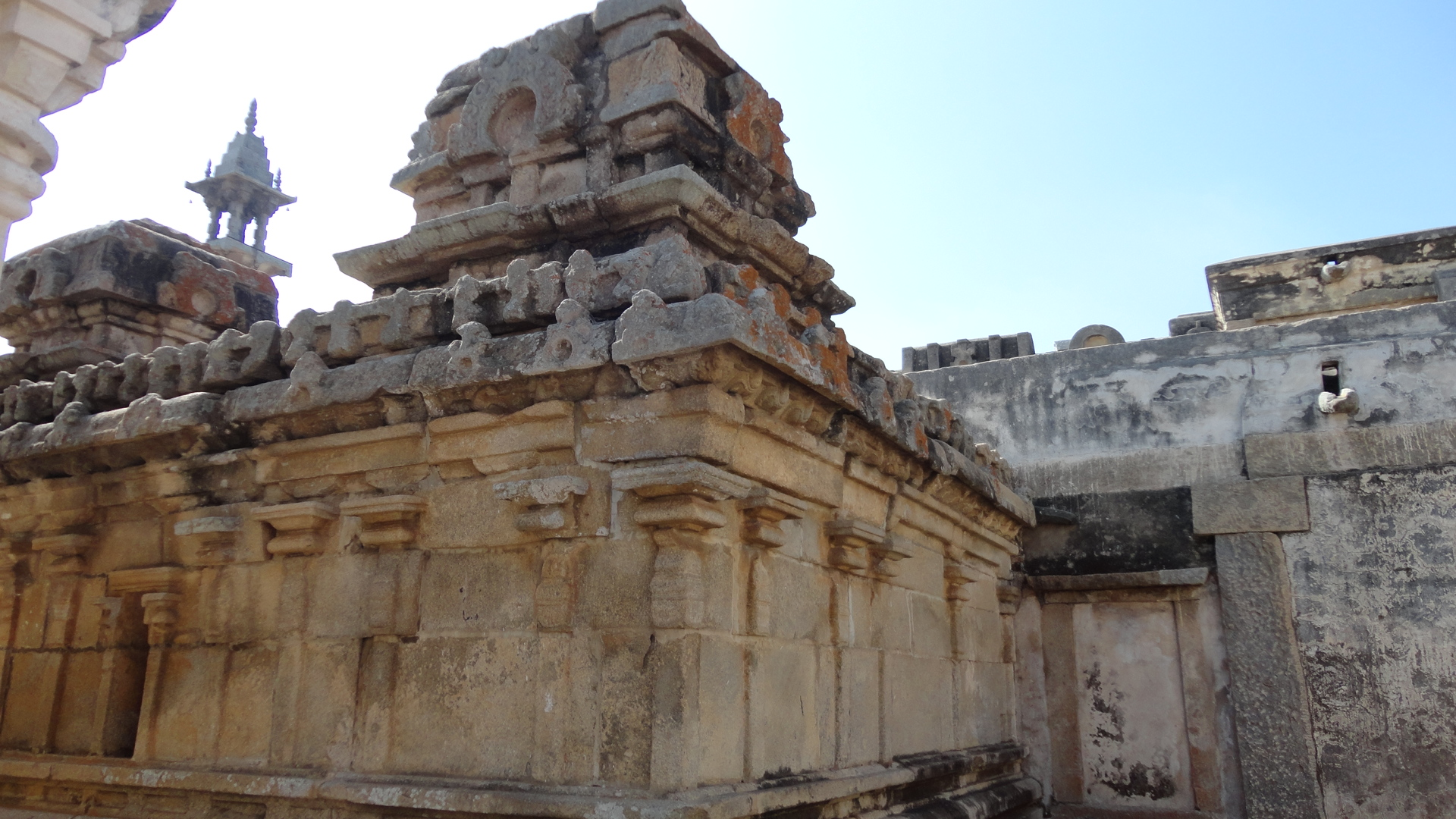 This photo covers the north-western sanctorum part of the Chandragupta Basti, Sravanabelgola, Hassan, Karnataka. This also includes the dome and wall carvings, the tall light housing pillar, seen near left top corner, being in front of the adjacent Parsvanatha Basti.